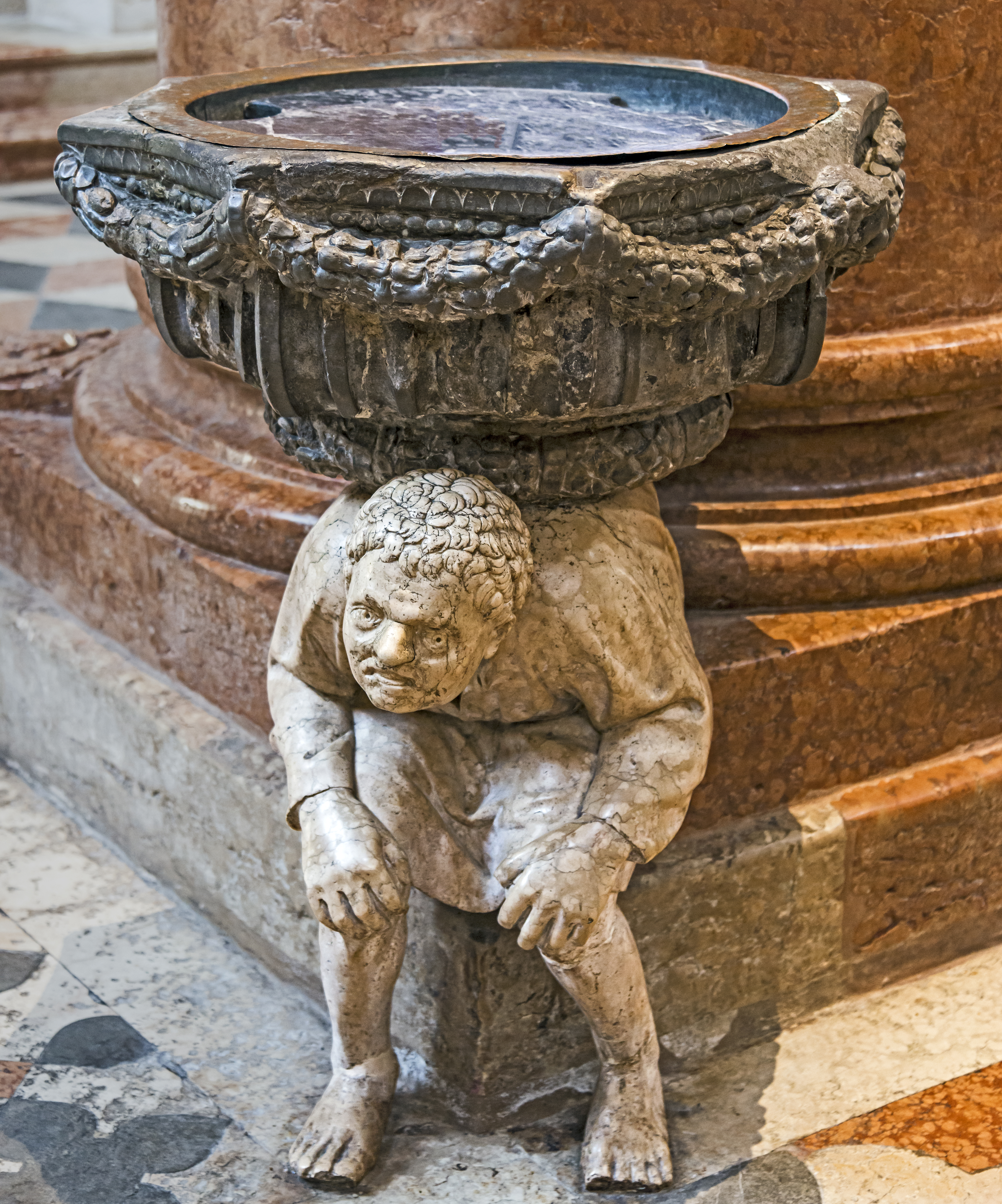 Basilica Santa Anastasia in Verona. Holy water stoup by Gabriele Caliari (1495).